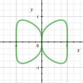 Butterfly curve Made with Grapher